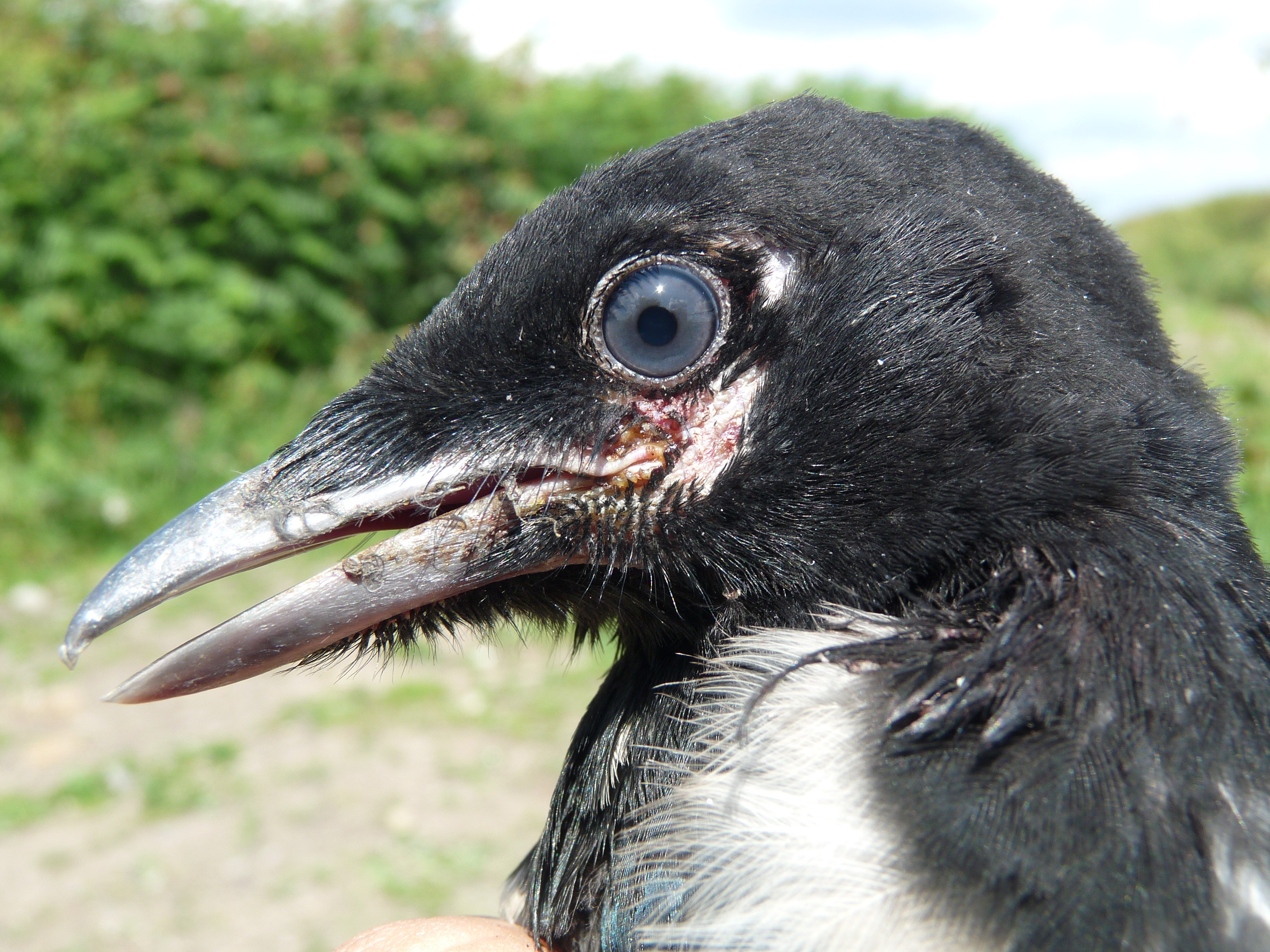 Latin name Pica pica Family Crows and allies (Corvidae) Overview Magpies seem to be jacks of all trades - scavengers, predators and... Where to see them ... When to see them All year round. What they eat Omnivore and scavenger.